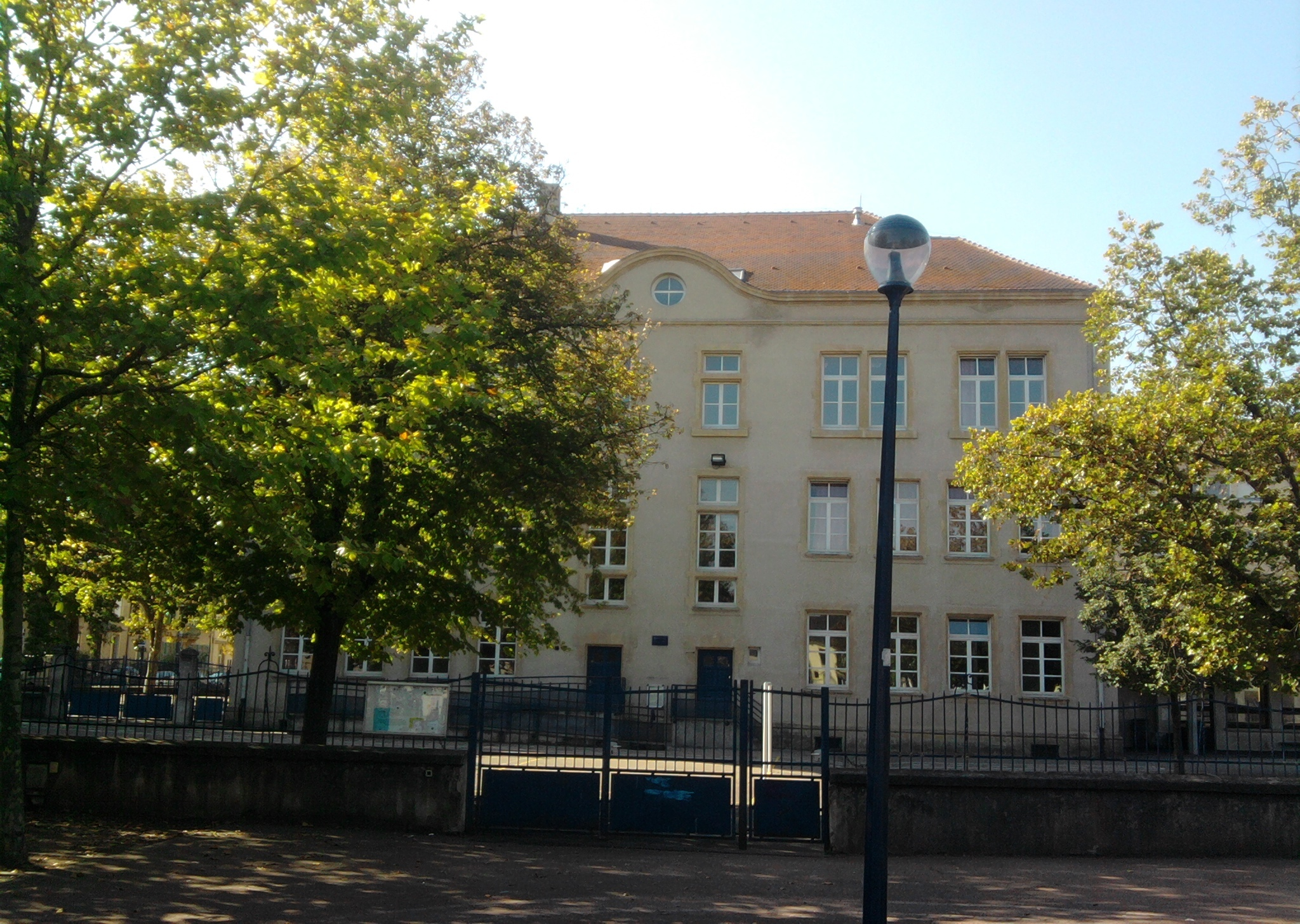 Photography of the Graoully elementary school in Metz-Sablon (Moselle, France), beginning of the XXth century